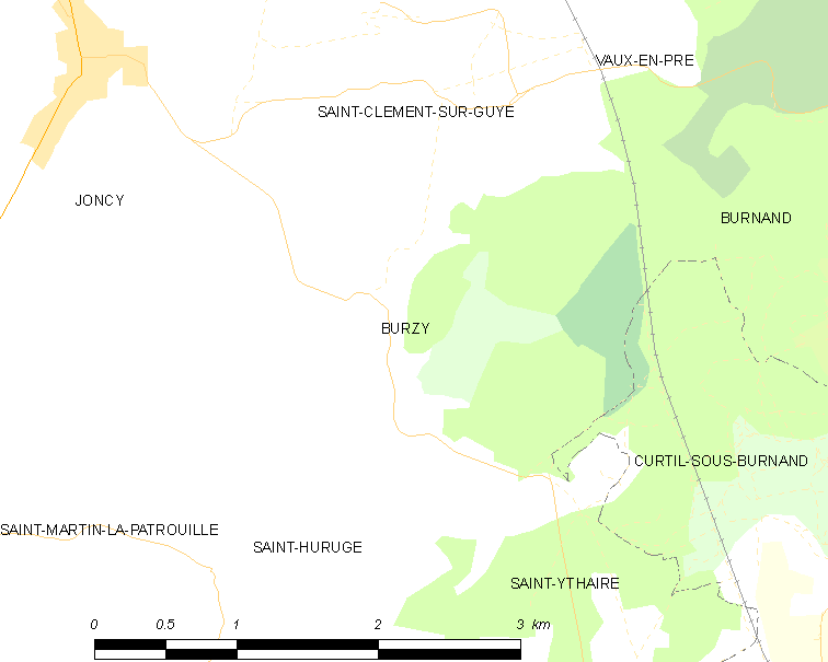 Map of French municipality